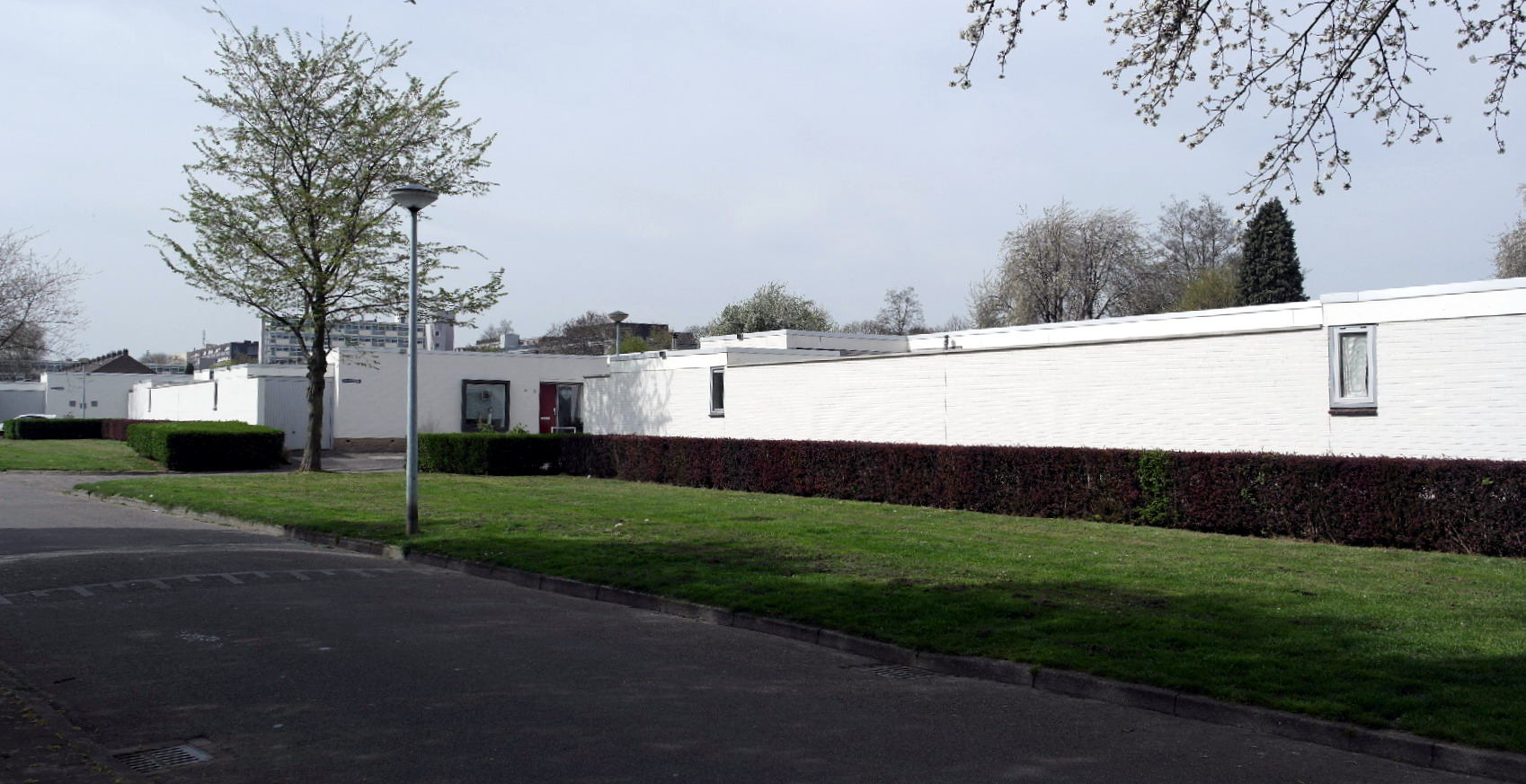 Maastricht, the Netherlands. 1960s patio bungalows designed by Gerard Snelder in the neighbourhood of Malberg in Maastricht-West.